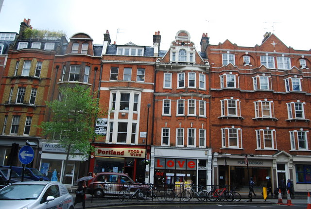 Shops, Great Portland St